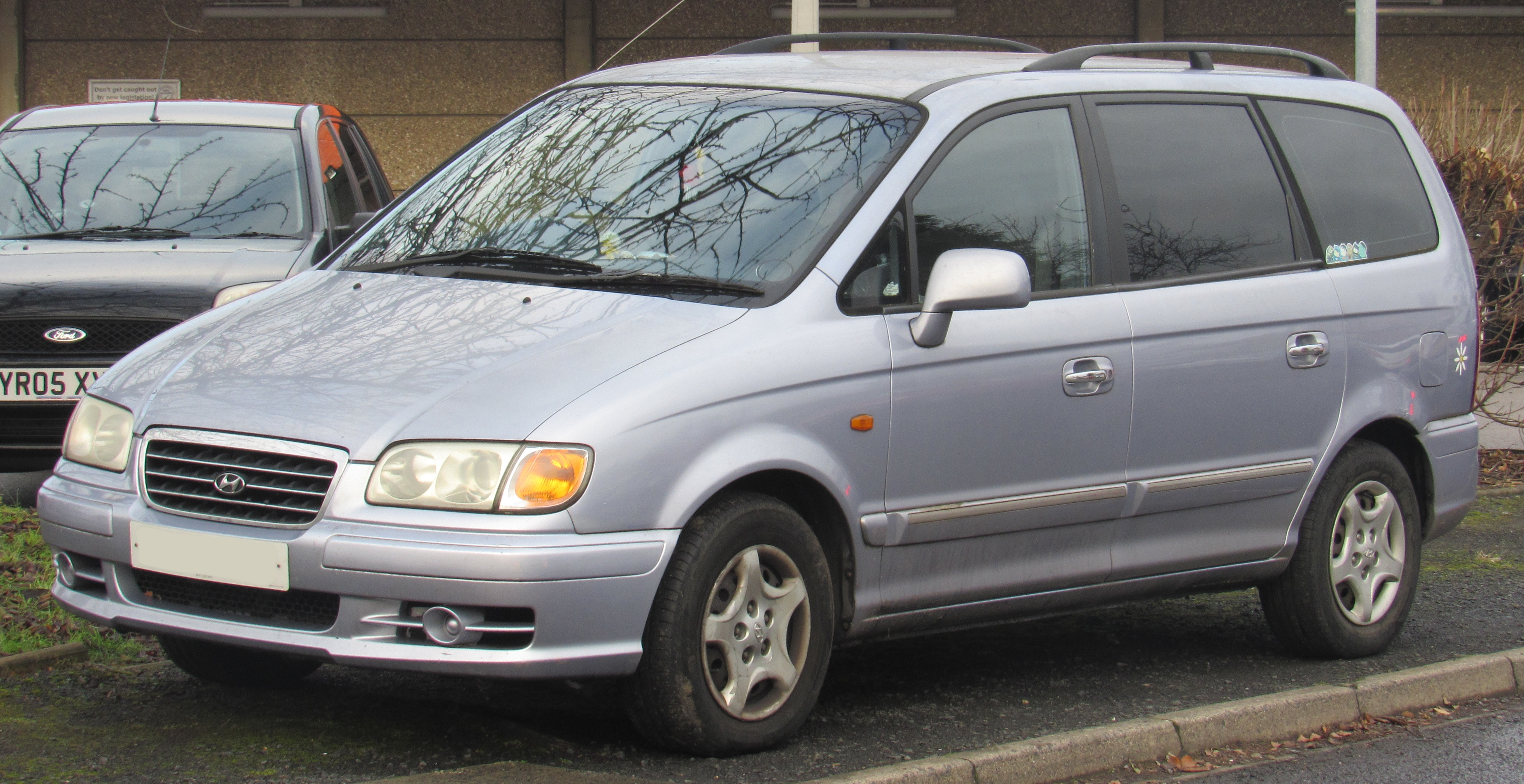 2003 Hyundai Trajet GSi TD 2.0 Front Taken in Warwick